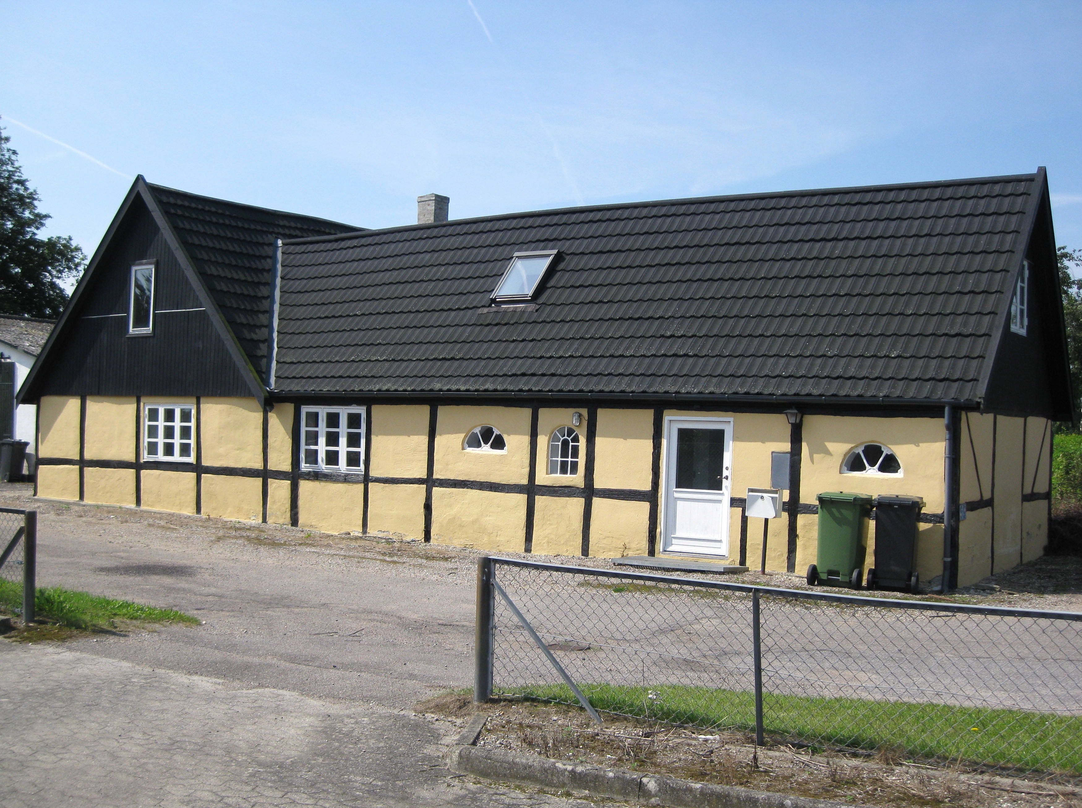 Old house in the village "Jungshoved by" located on South Zealand in east Denmark.